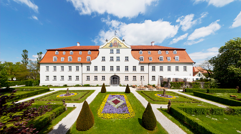 Schloss Lautrach, Südansicht